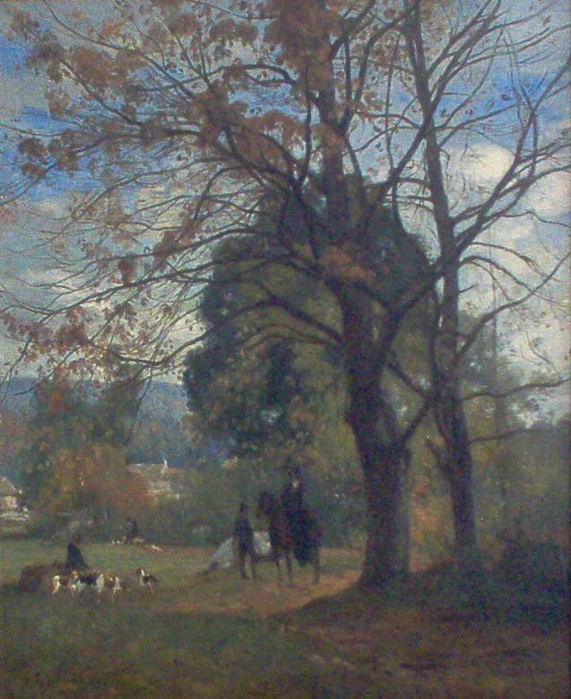 Oil-painting on canvas (53,8 x 44 cm) made by Eugène Lavieille (1820-1889), french painter. Unsourced private collection.